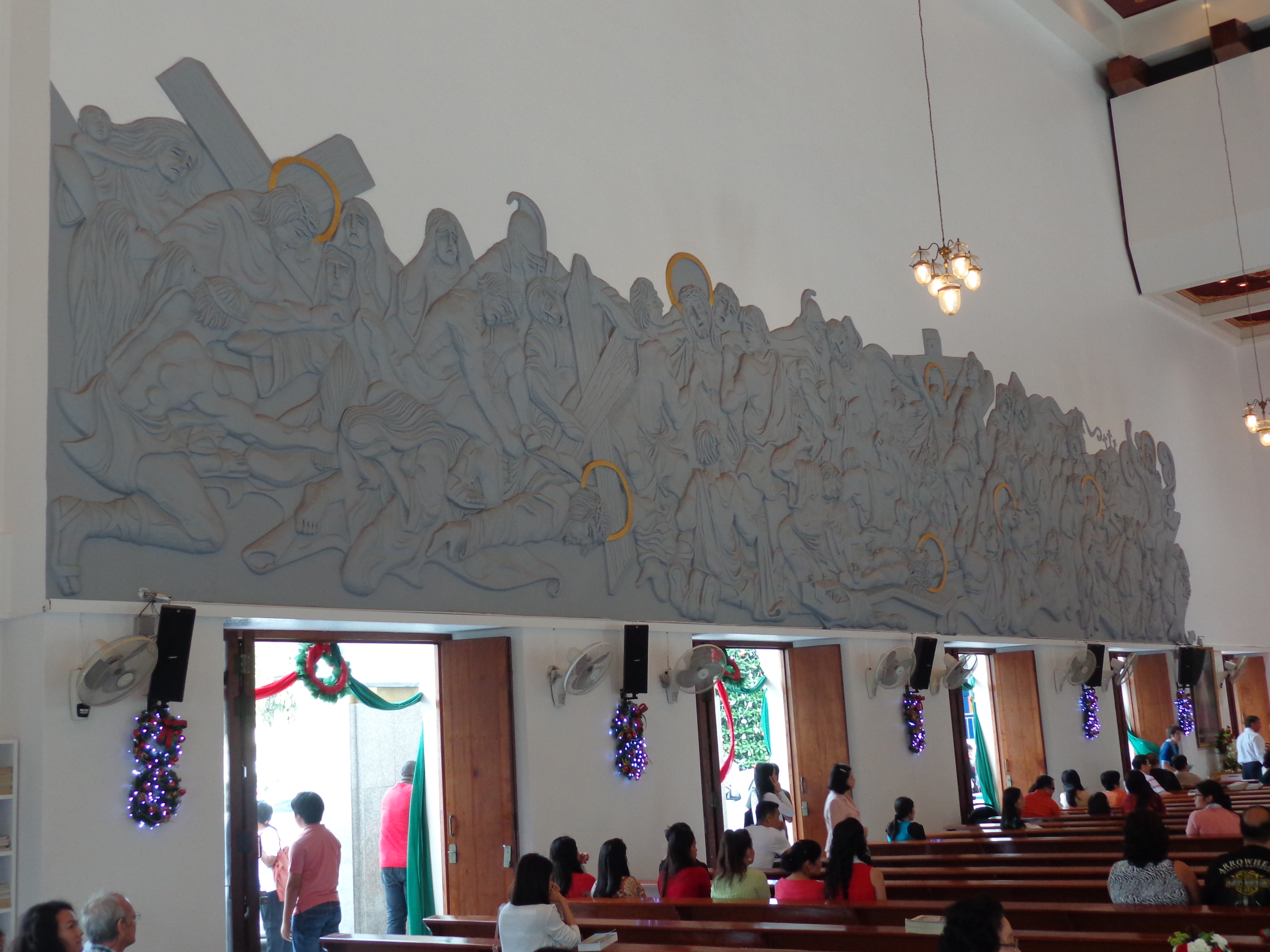 Frieze of the Stations of the Cross inside the Holy Redeemer Catholic Church in Bangkok, Thailand, second photo to two